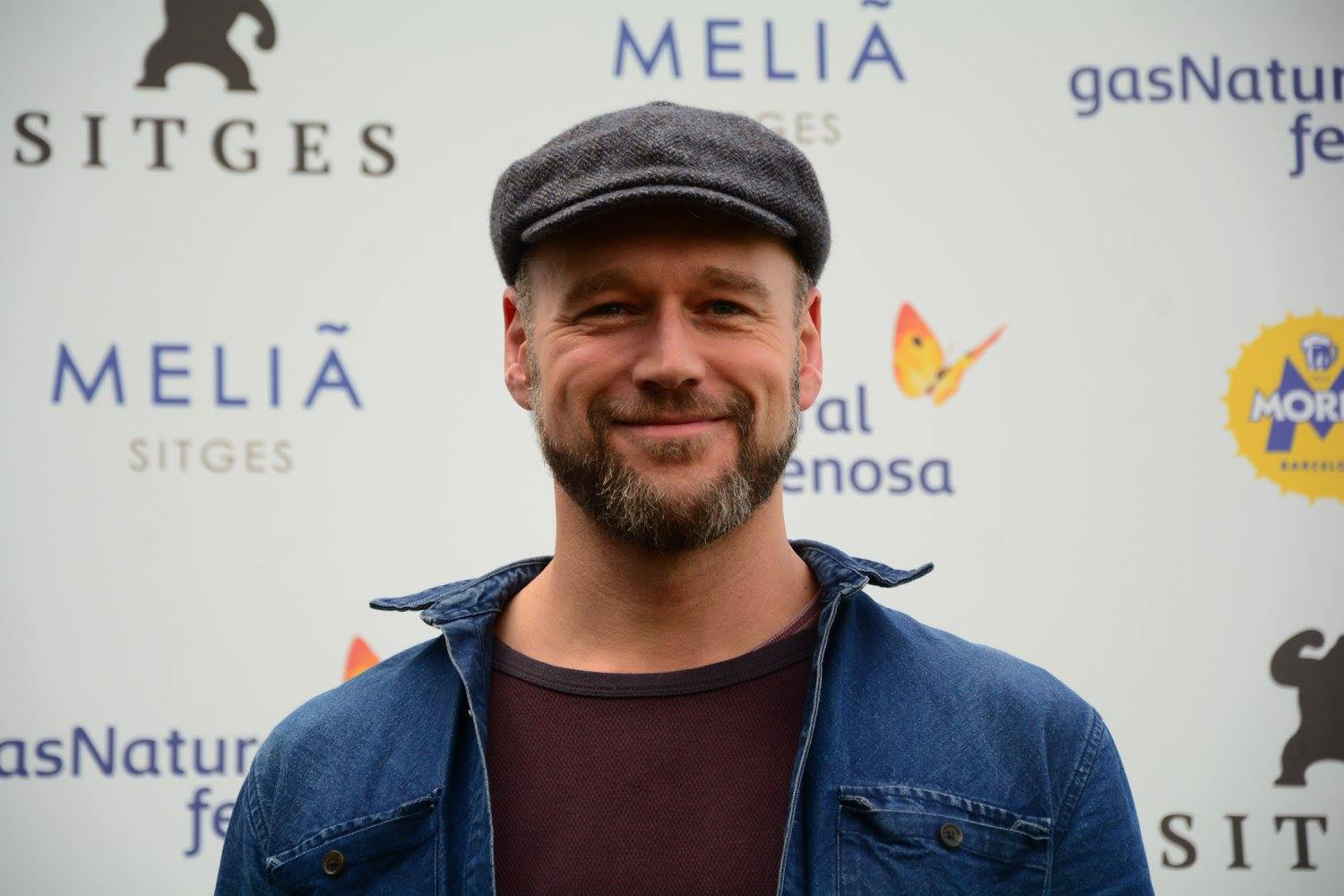 Elliot Cowan - MUSE